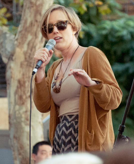 Australian comedian Claire Hooper on stage at the marriage equality rally in Sydney, 2012.